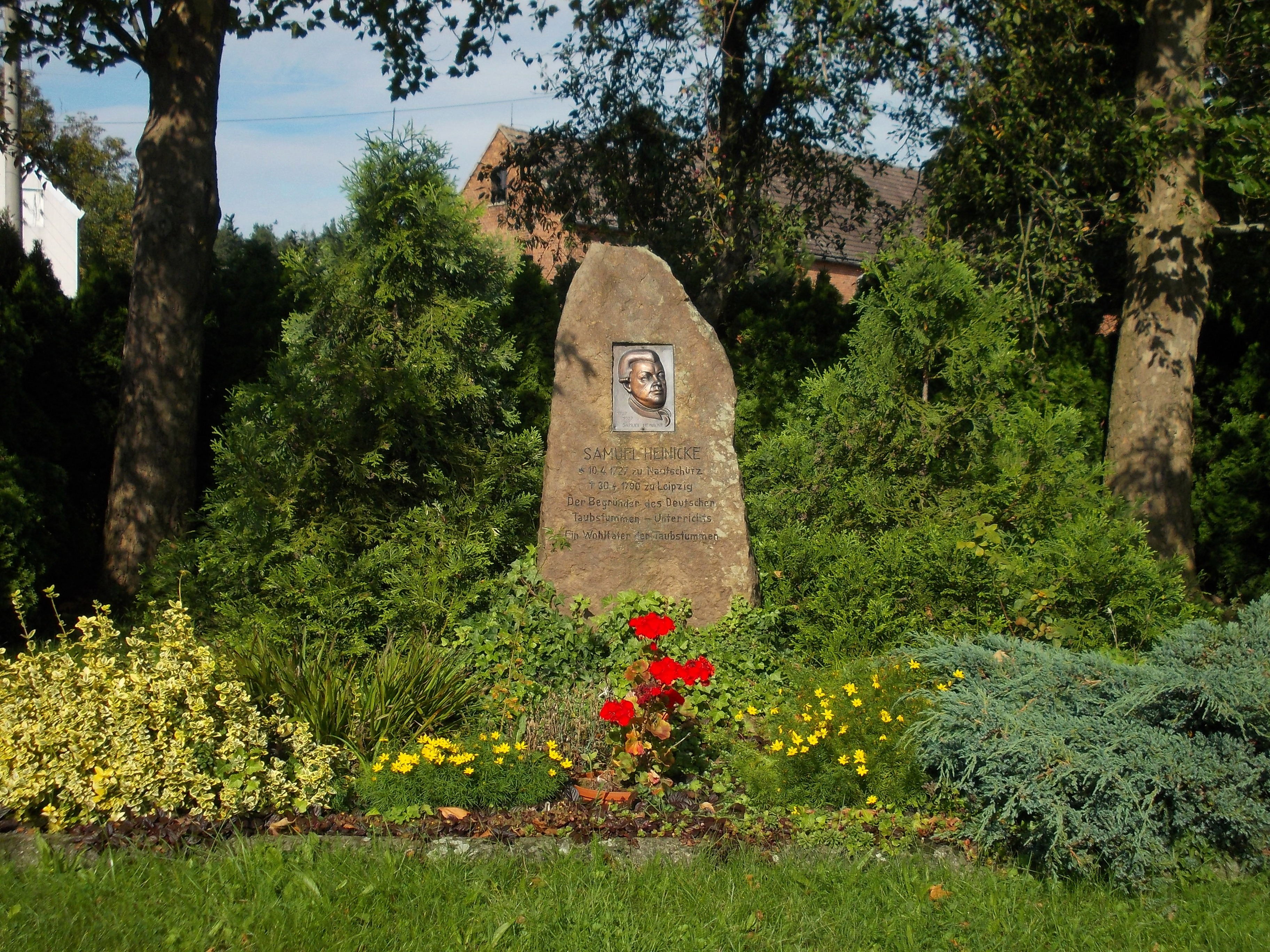 Memorial to Samuel Heinicke in Nautschütz (Schkölen, district: Saale-Holzland-Kreis, Thuringia)